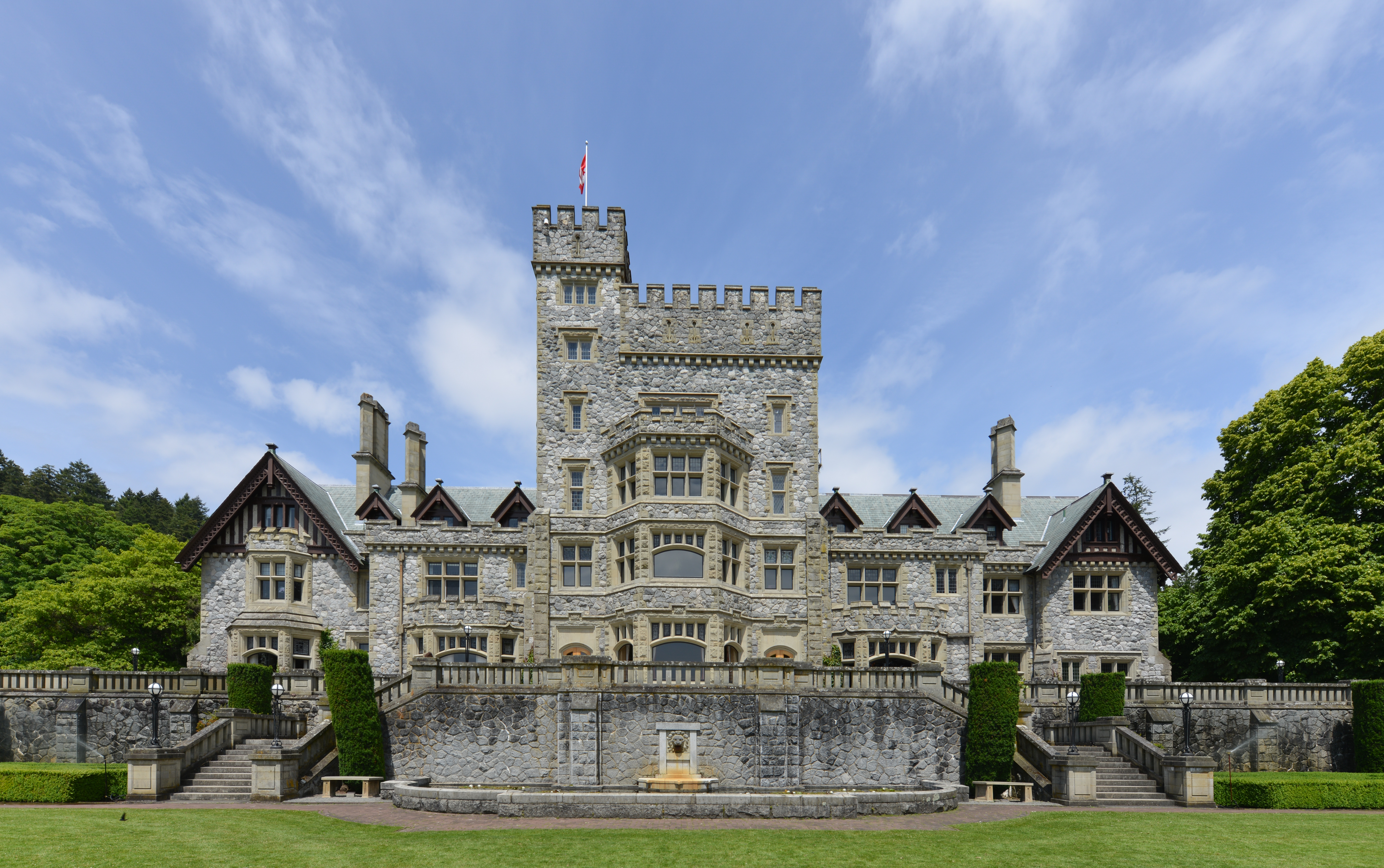 Hatley Castle, view from garden side